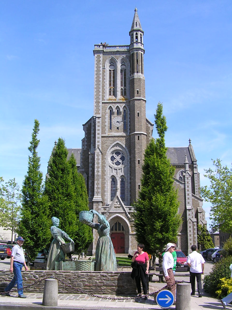 Front of the church Saint-Méen of Cancale, Ille-et-Vilaine, France.